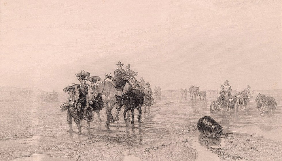 A view of cockle gatherers and horses on the beach. Women wearing Welsh costumes are amongst the gatherers.